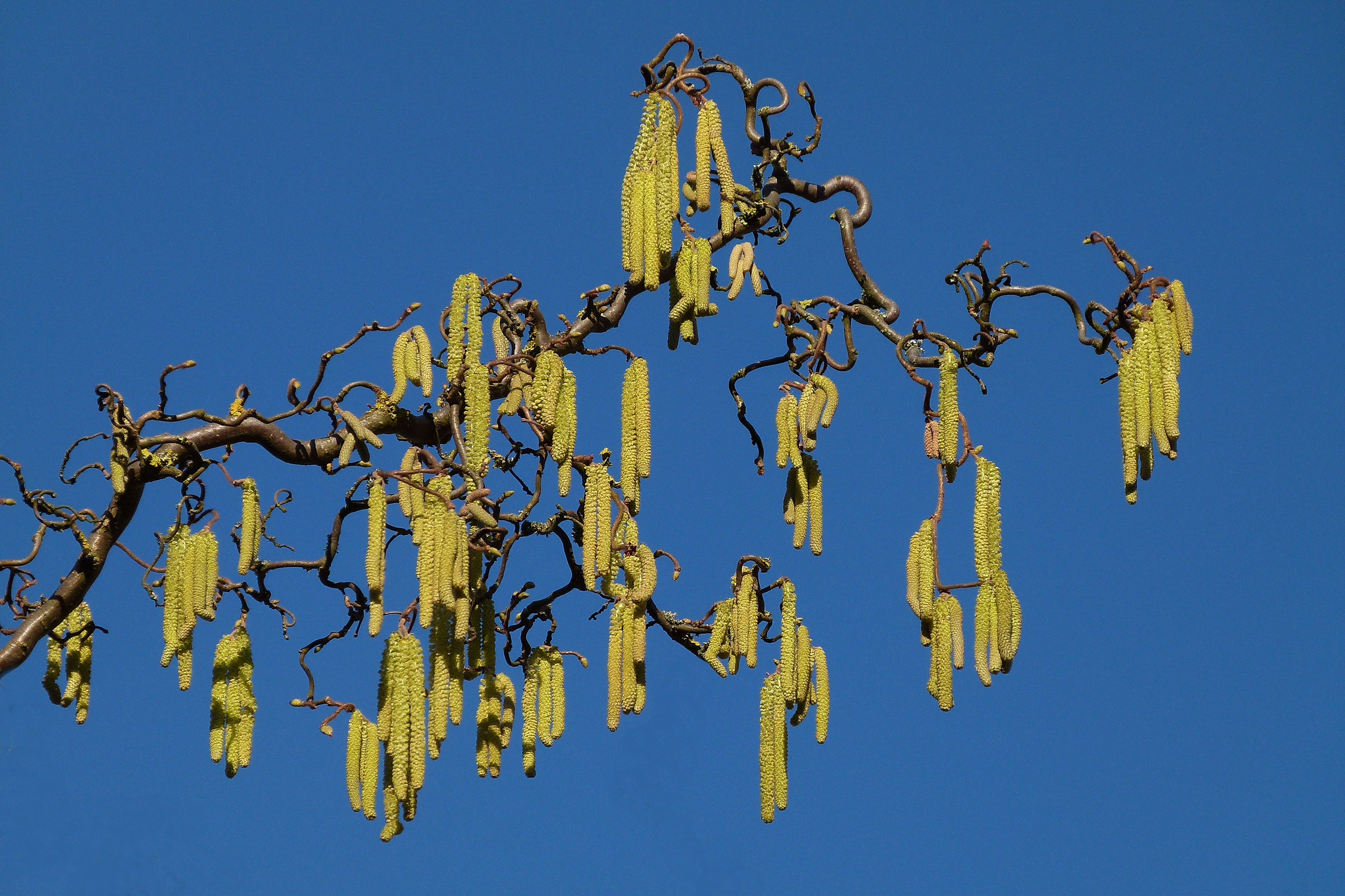 Hazelnut in blossom (Corylus avellana 'Contorta')